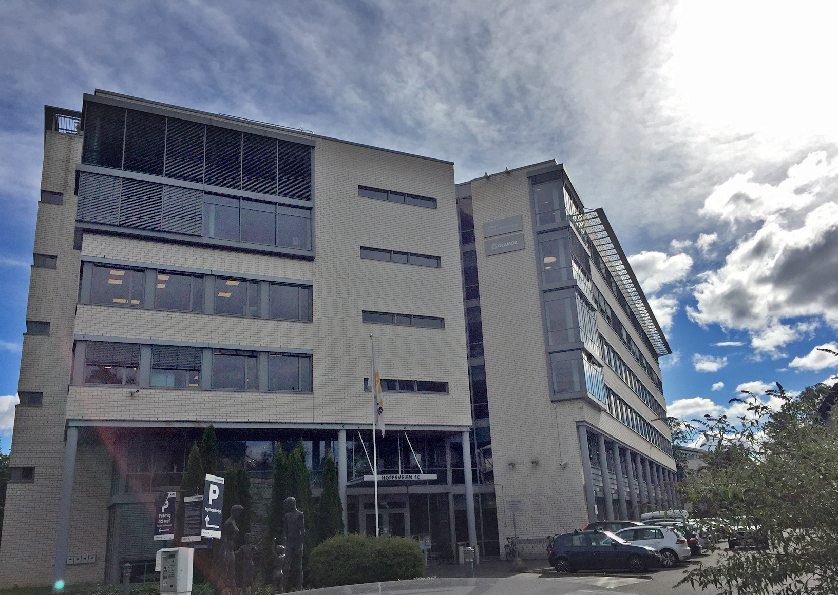 Glamox' hovedkontor på Skøyen i Oslo